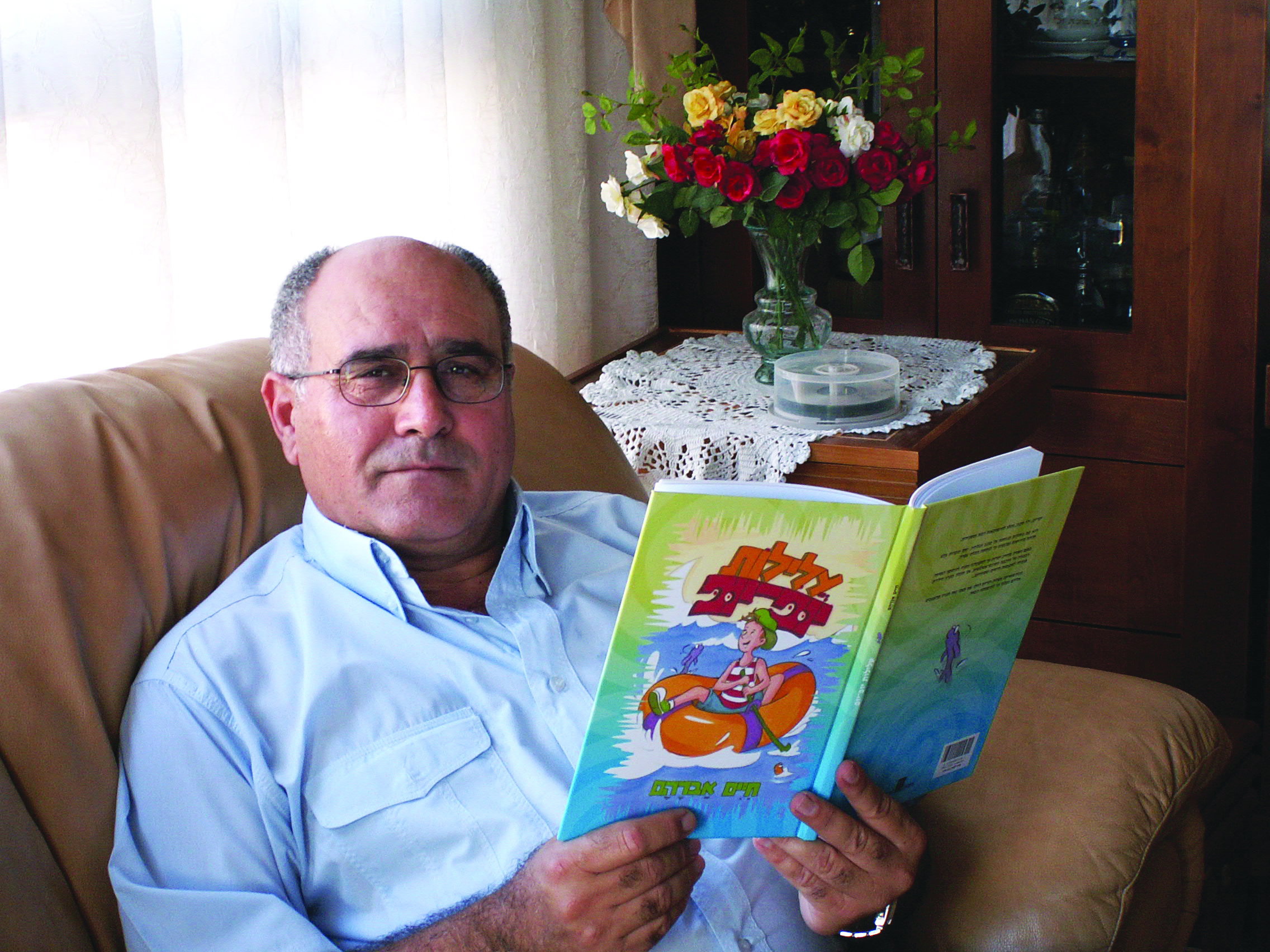 הסופר והמשורר חיים אברהם